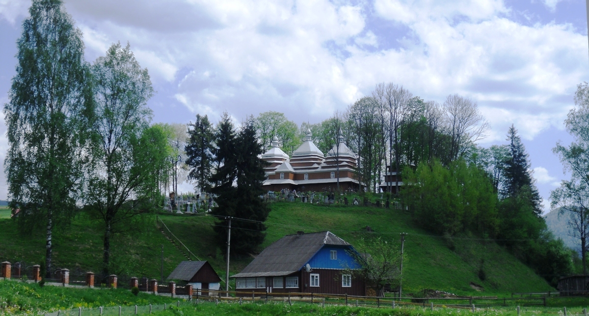 Church of the Holy Eucharist (1804). Volosyanka, Skole Raion.